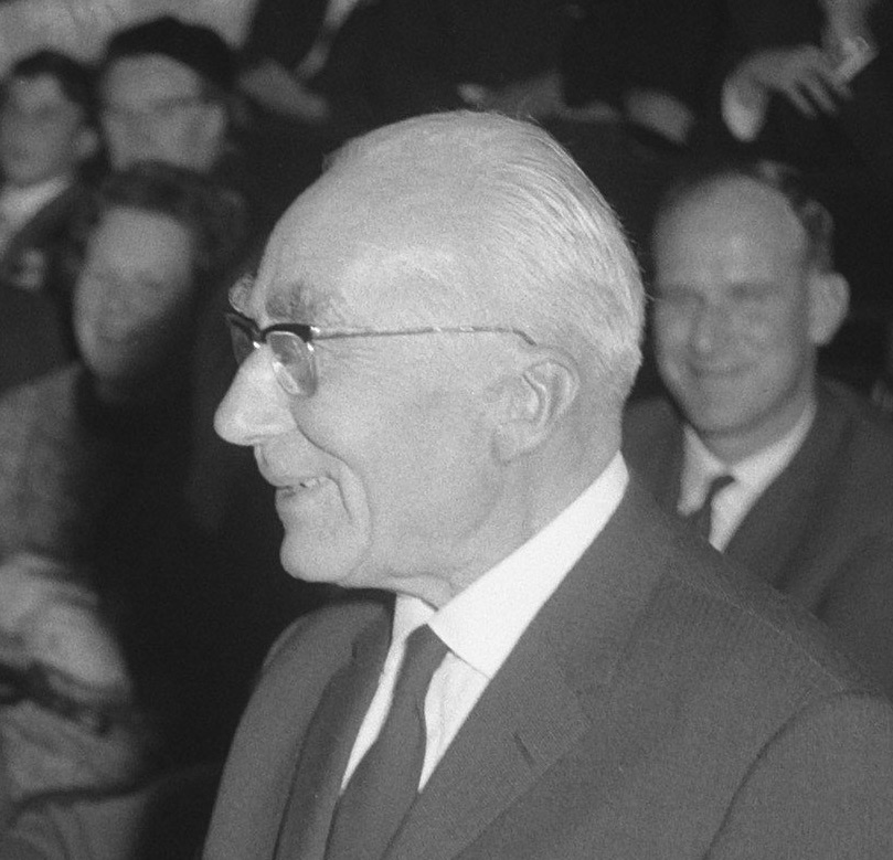 Crop of Piet Zwart when he received the David Roell-award 1964